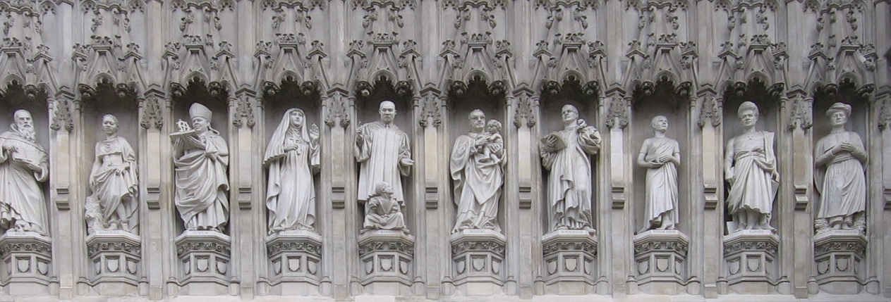 Statues of 20th-century martyrs on the façade above the Great West Door of Westminster Abbey. Those commemorated are Maximilian Kolbe, Manche Masemola, Janani Luwum, Grand Duchess Elizabeth of Russia, Martin Luther King, Óscar Romero, Dietrich Bonhoeffer, Esther John, Lucian Tapiedi, and Wang Zhiming.